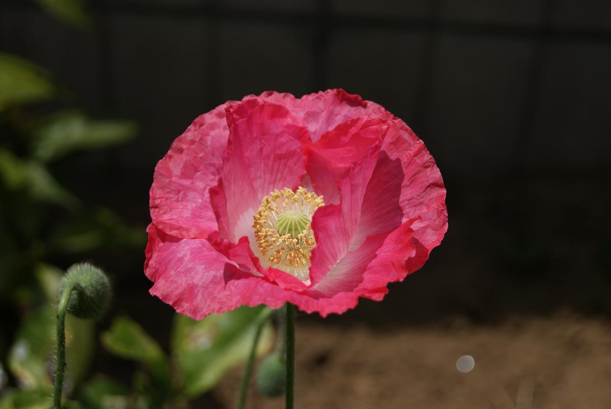 Papaver rhoeas inflorescence